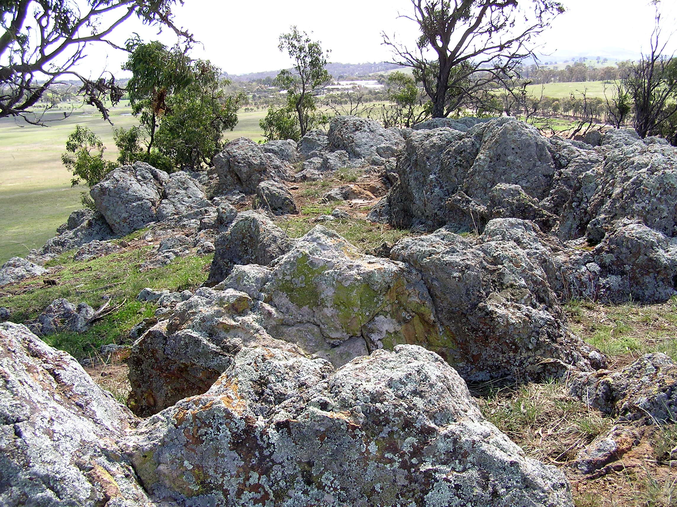 Volcanic rocks on top of Crace Hill. This is a geological monument. The rock is a vesicular Dacite